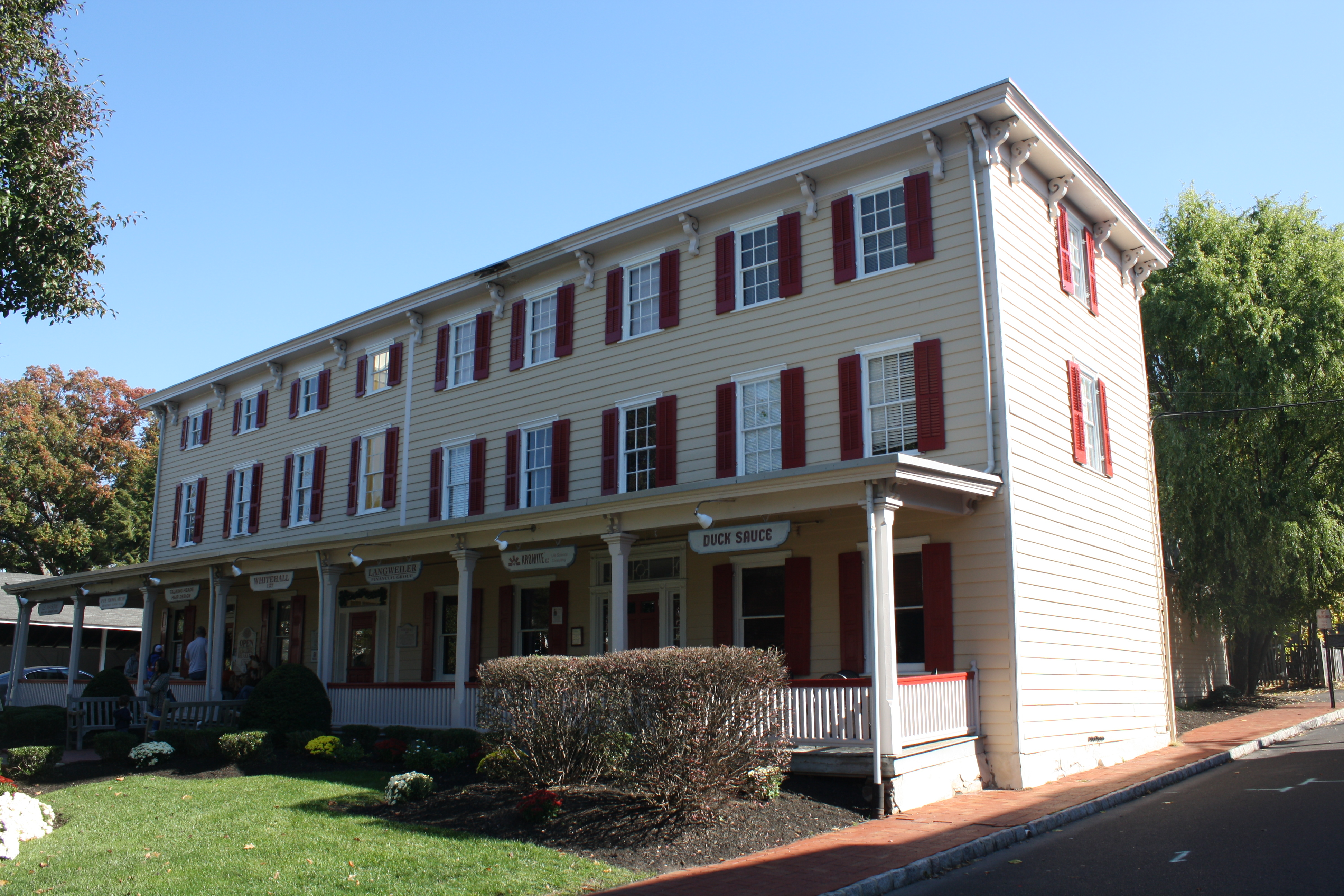 Newtown Historic District (Newtown, Pennsylvania), Newtown, Bucks County, Pennsylvania. White Hall. Object location40° 13′ 39″ N, 74° 56′ 11″ W